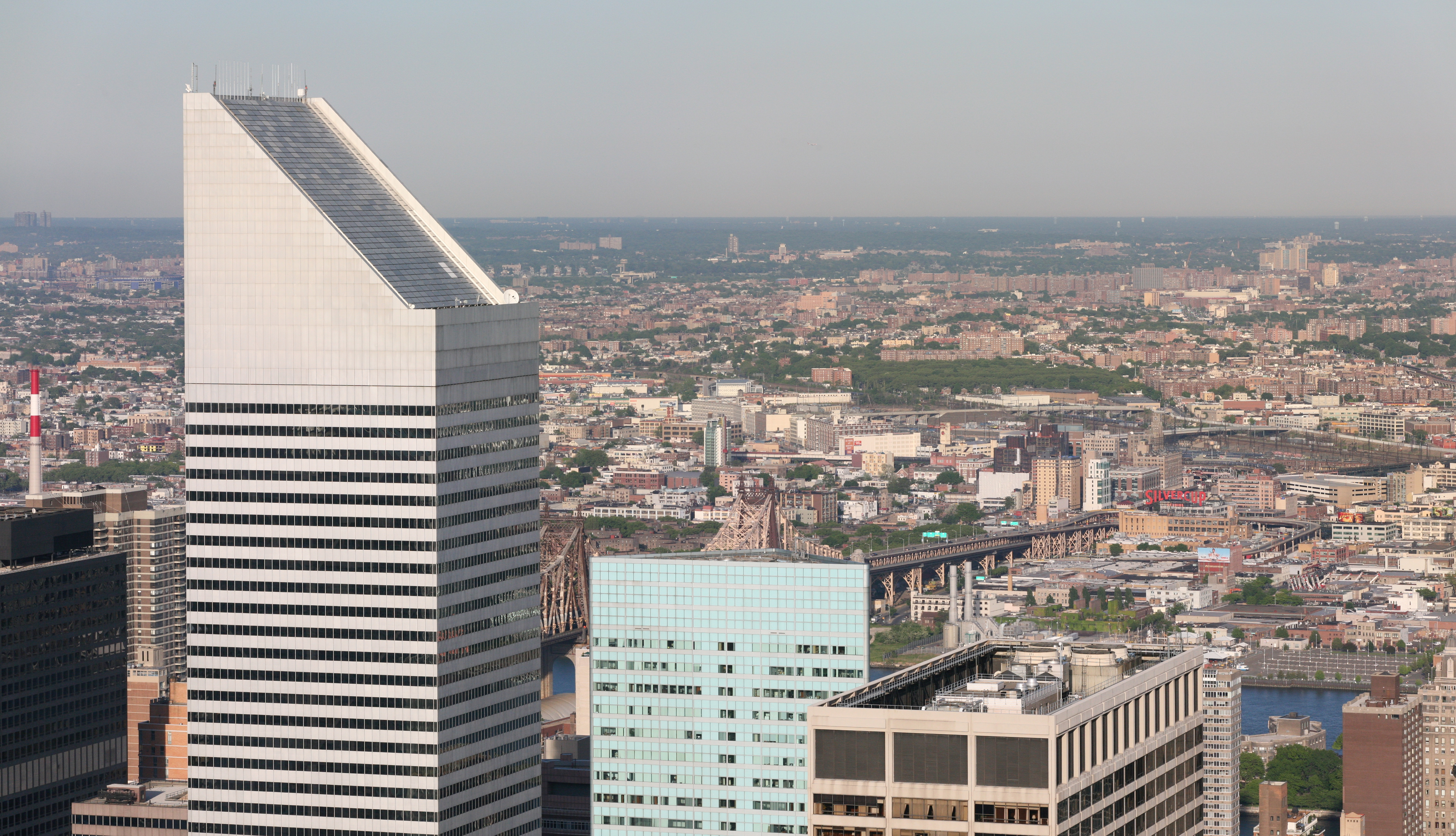 Panoramic view across Queens, New York, taken from Top of the Rock with the Citigroup Center in the foreground. This image was created with Hugin.